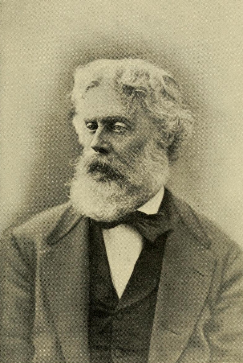 Portrait of American writer and artist Christopher Pearse Cranch (1813-1892)